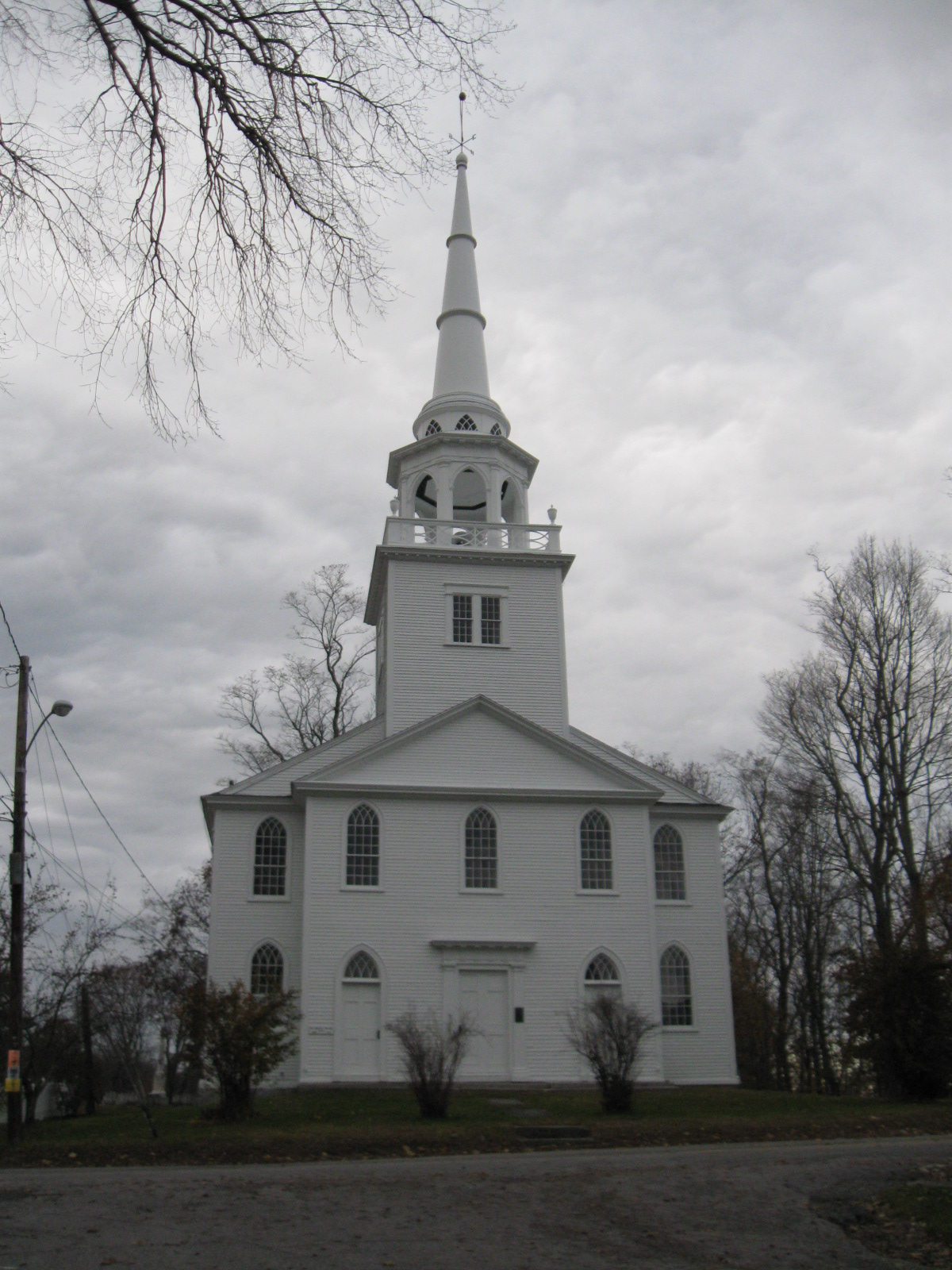 North Yarmouth and Freeport Baptist Meetinghouse, Yarmouth, Maine. Photo by Ken Gallager, Nov. 11, 2011.